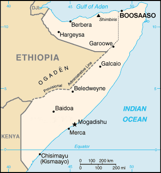 Modified image of a Map of Somalia, showing the location of Boosaaso. The original image was the public domain of the CIA World Factbook.